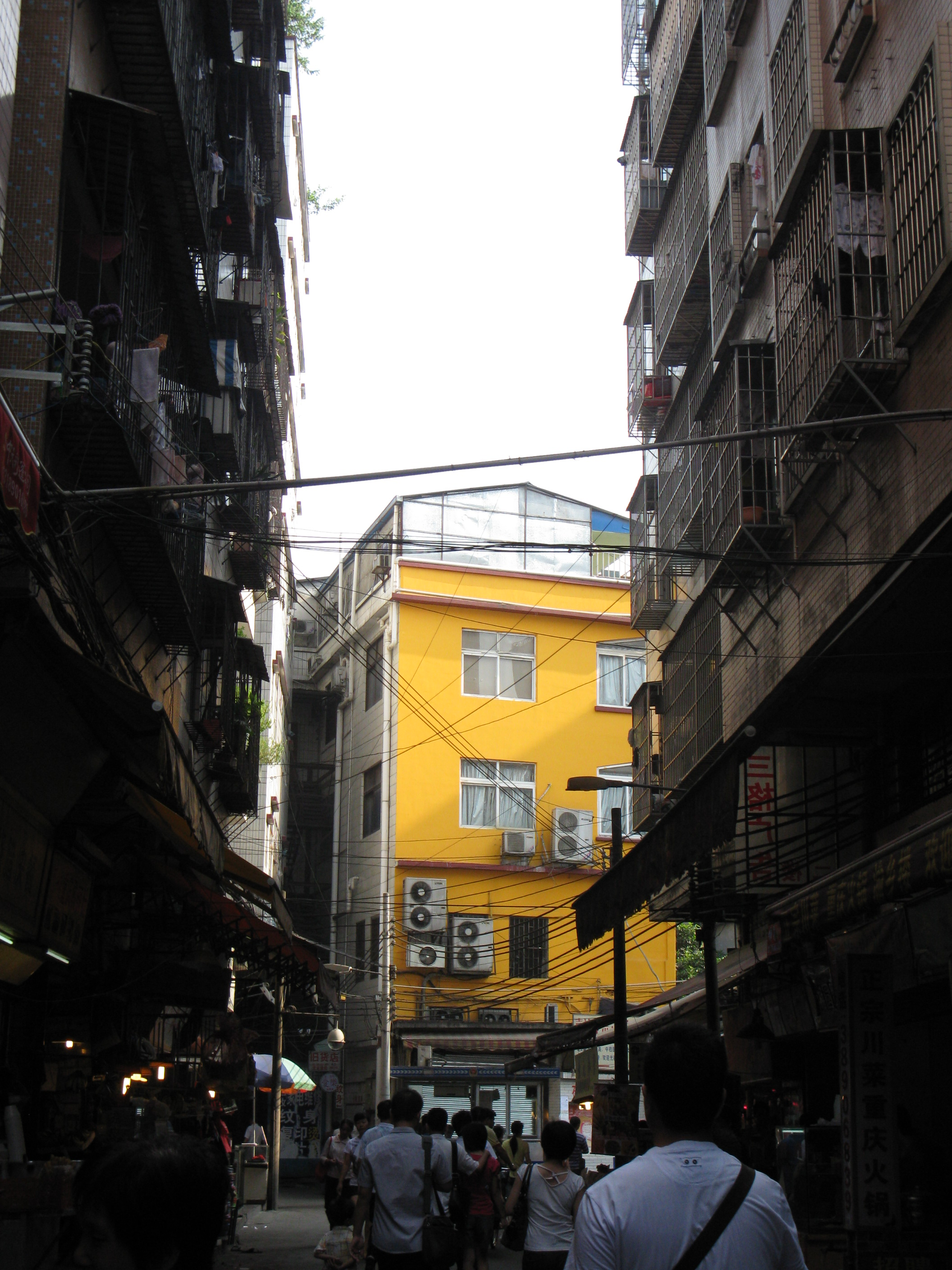 an outlet of Shipai Village, Guangzhou, China